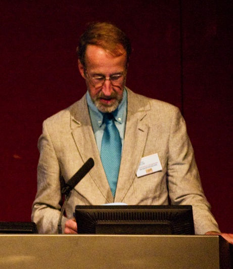 Dutch Egyptologist Maarten Raven at the Egyptological Colloquium 2009 (British Museum).